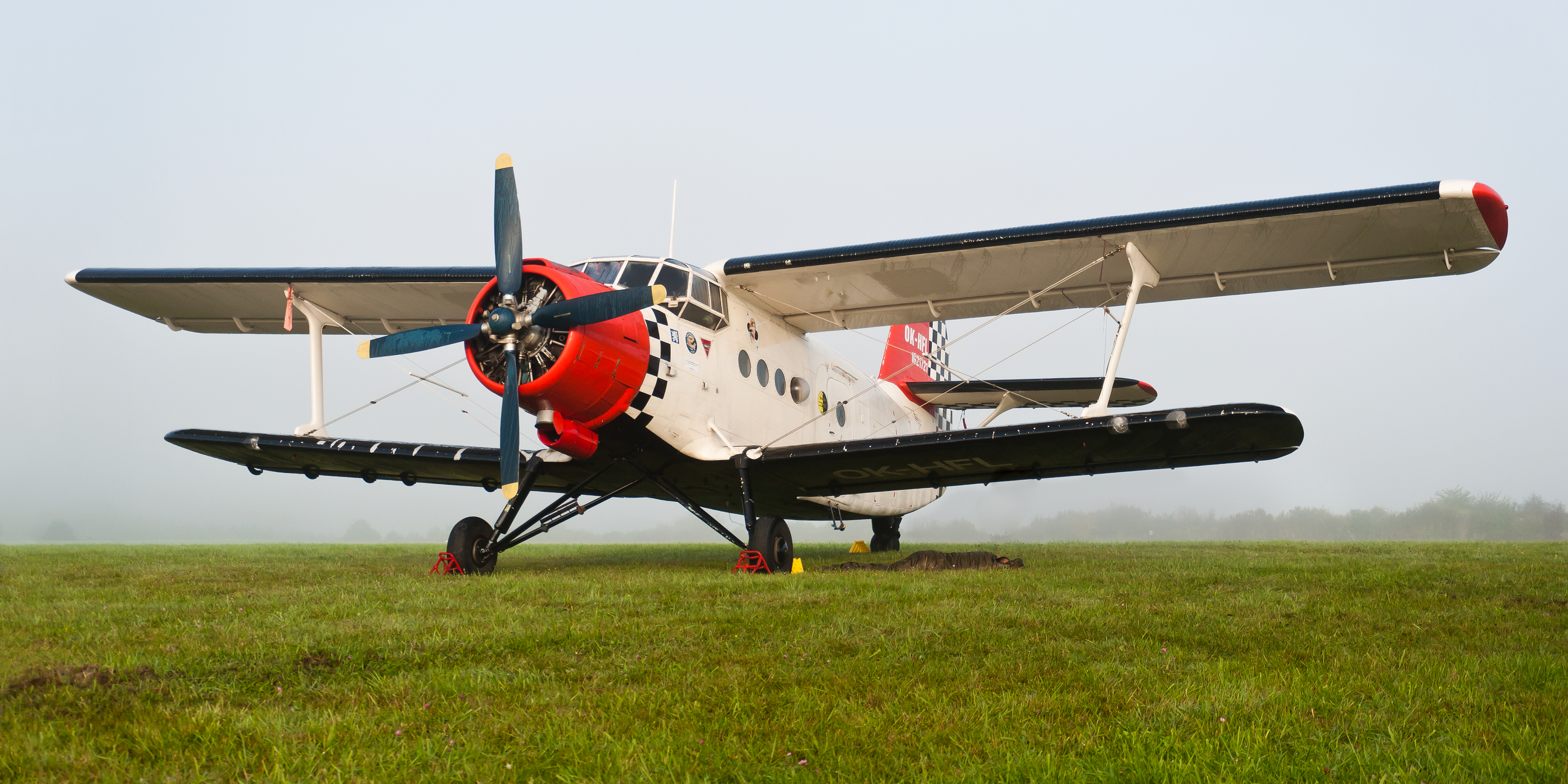 Antonov An-2 (OK-HFL, cn 1G21721) of the Heritage of Flying Legends Antonov display team on the static display of "Oldtimer Fliegertreffen" Hahnweide 2011 (EDST). This photo was taken at the 16th Oldtimer Fliegertreffen Hahnweide from September 2 to 4, 2011.